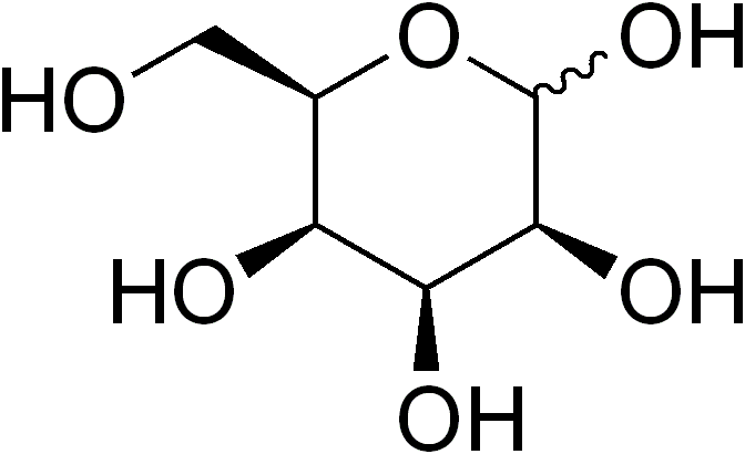 chemical structure of talose